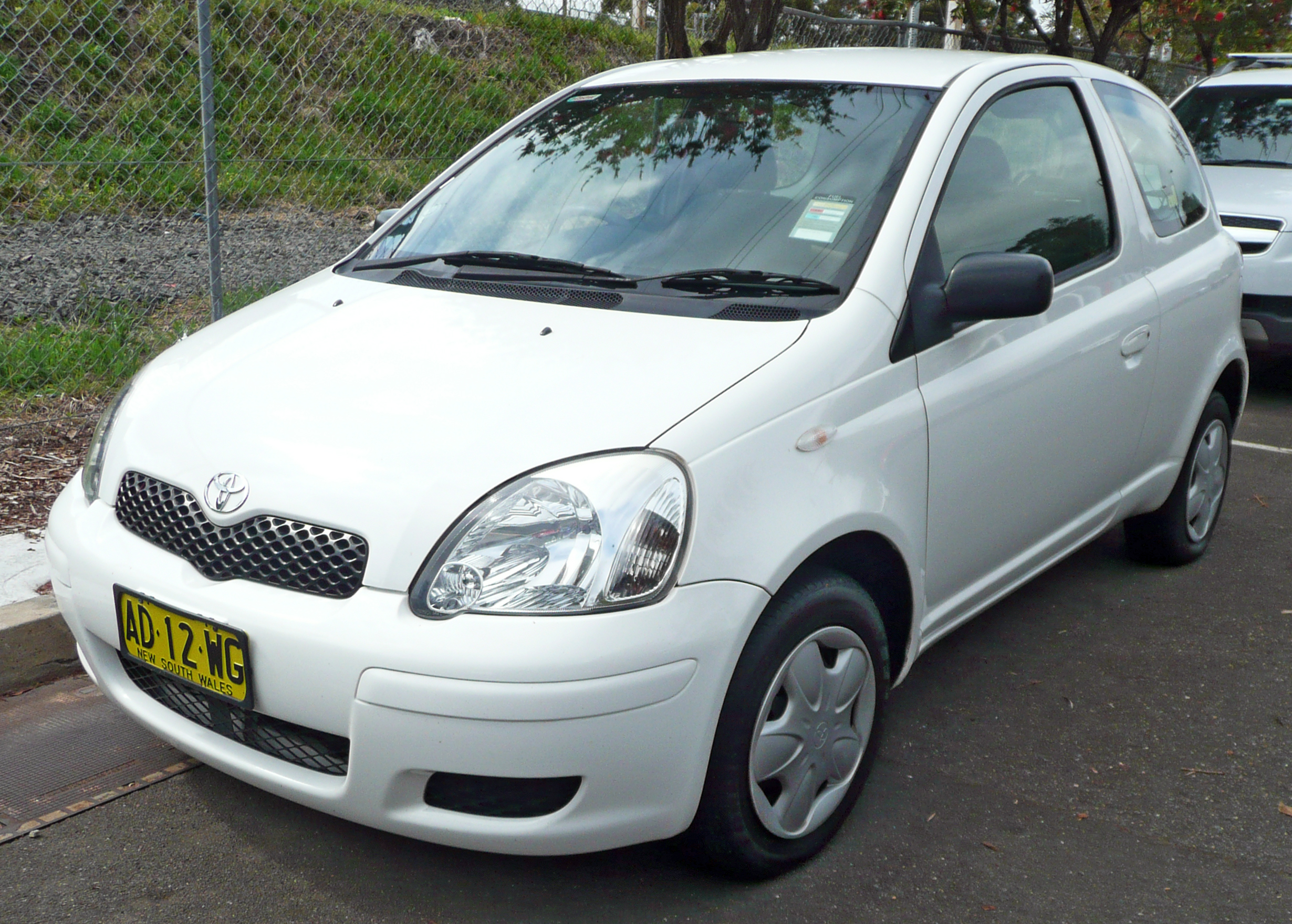 2003–2005 Toyota Echo (NCP10R) 3-door hatchback. Photographed in Sutherland, New South Wales, Australia.